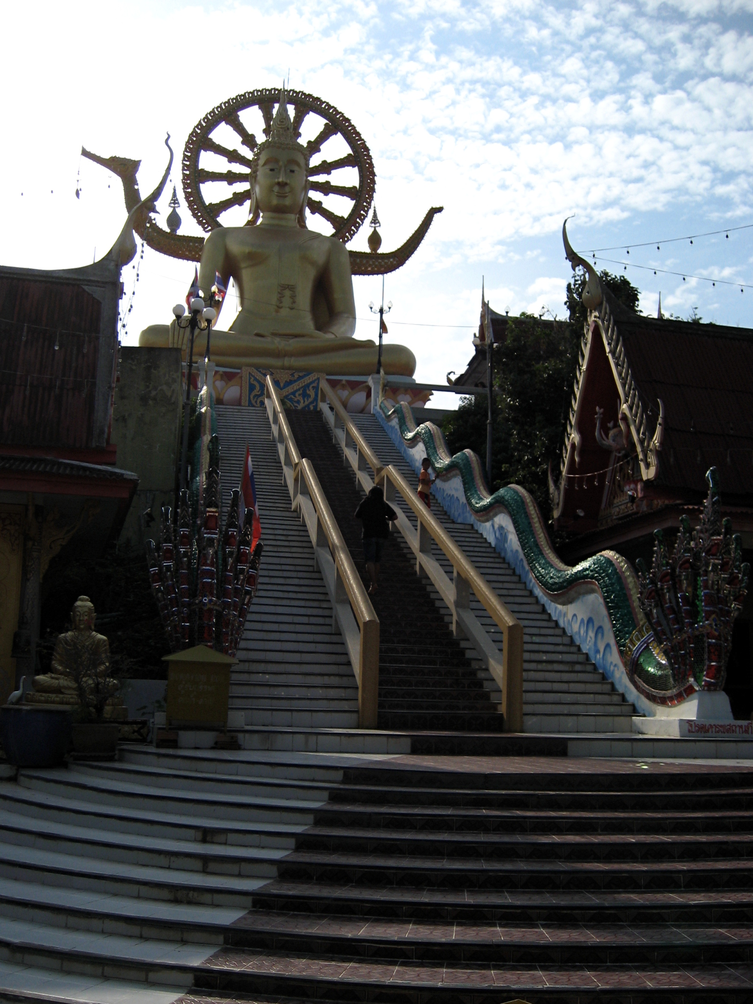 Phra Phuttha Kodom, "The Big Buddha", in tambon Bo Phut, Ko Samui, Surat Thani province, Thailand, is 12 meters high and was erected in 1972. It is part of the Wat Phra Yai temple compound.